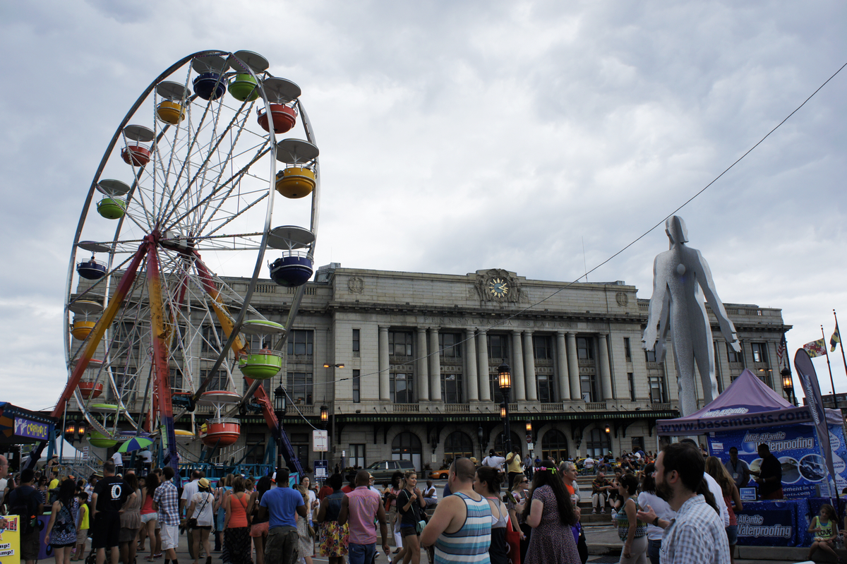 Artscape 2014 in Baltimore, with Penn Station in the background with Jonathan Borofsky's Male/Female statue.